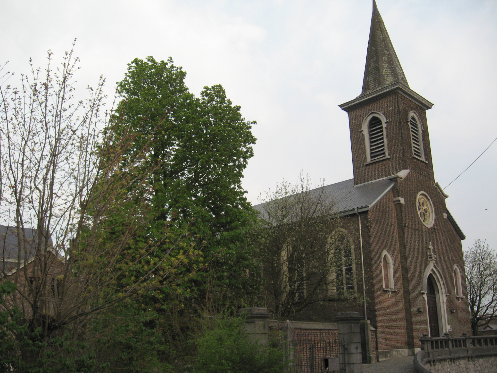 Church of Saint Leon in Rocourt, Liège, Belgium